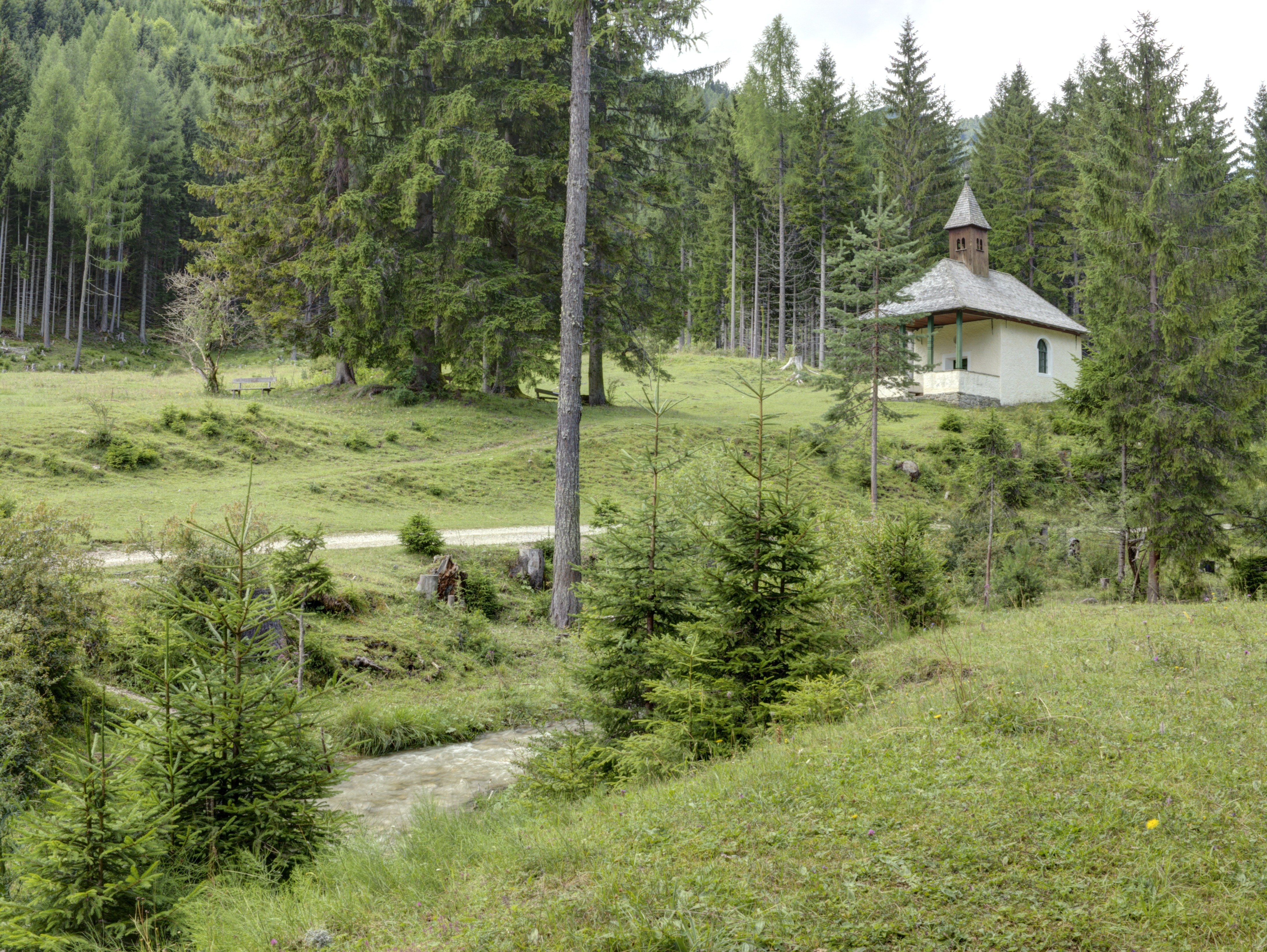 Chapel of the former village glassblower Tscherniheim, a place of Forest glass production from 1621 to 1879 in the municipality Hermagor-Pressegger See in Carinthia / Austria / EU. View from the northeast. Where once stood up to 40 houses, now a deserted village in the pasture is only a few wall remains preserved. It's summer. All around spruce forests.